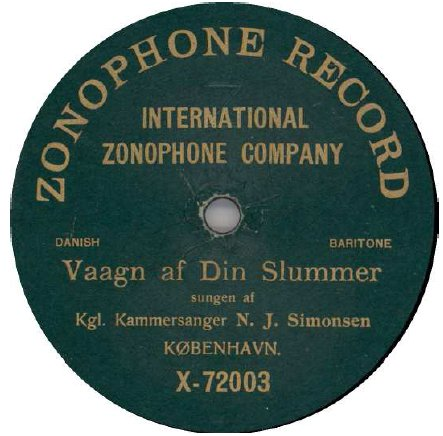 Zonophone Record of Niels Juel Simonsen in Vaagn af din Slummer